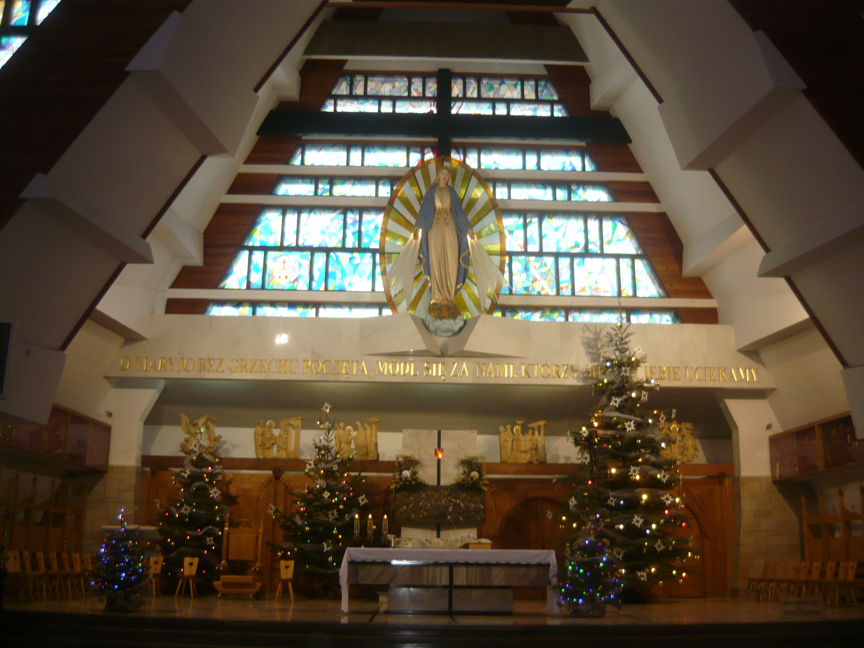 Kosciol Olcza